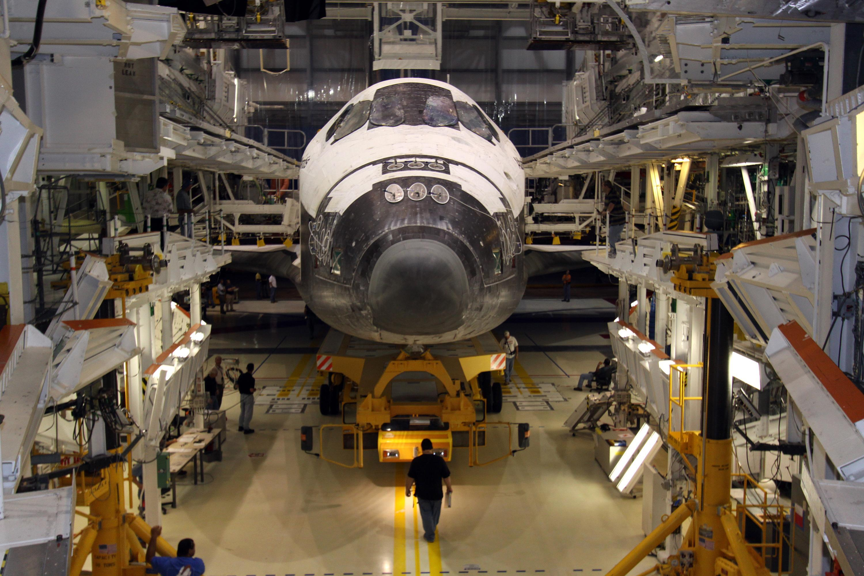 In the Kennedy Space Centre's Orbiter Processing Facility-1 in Florida, workers prepared space shuttle Atlantis to move from its hangar to the transfer aisle inside the nearby Vehicle Assembly Building. Subsequently, the shuttle was rolled to the launch pad in anticipation of its launch on the STS-129 mission to the International Space Station.